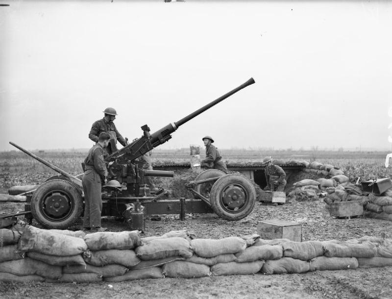 The British Army in France 1939-40 40mm Bofors gun of 152nd Battery, 51st Light Anti-Aircraft Regiment, near Arras, 13 November 1939.